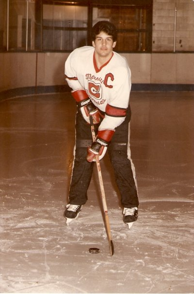 Team shot photo of Merritt Centennials captain John Tent at the Nicola Valley Memorial Arena. Taken during the 1984-85 season, January 11, 1985.